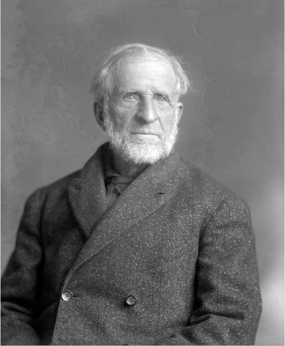 American general Joseph A. Cooper (1823–1910)